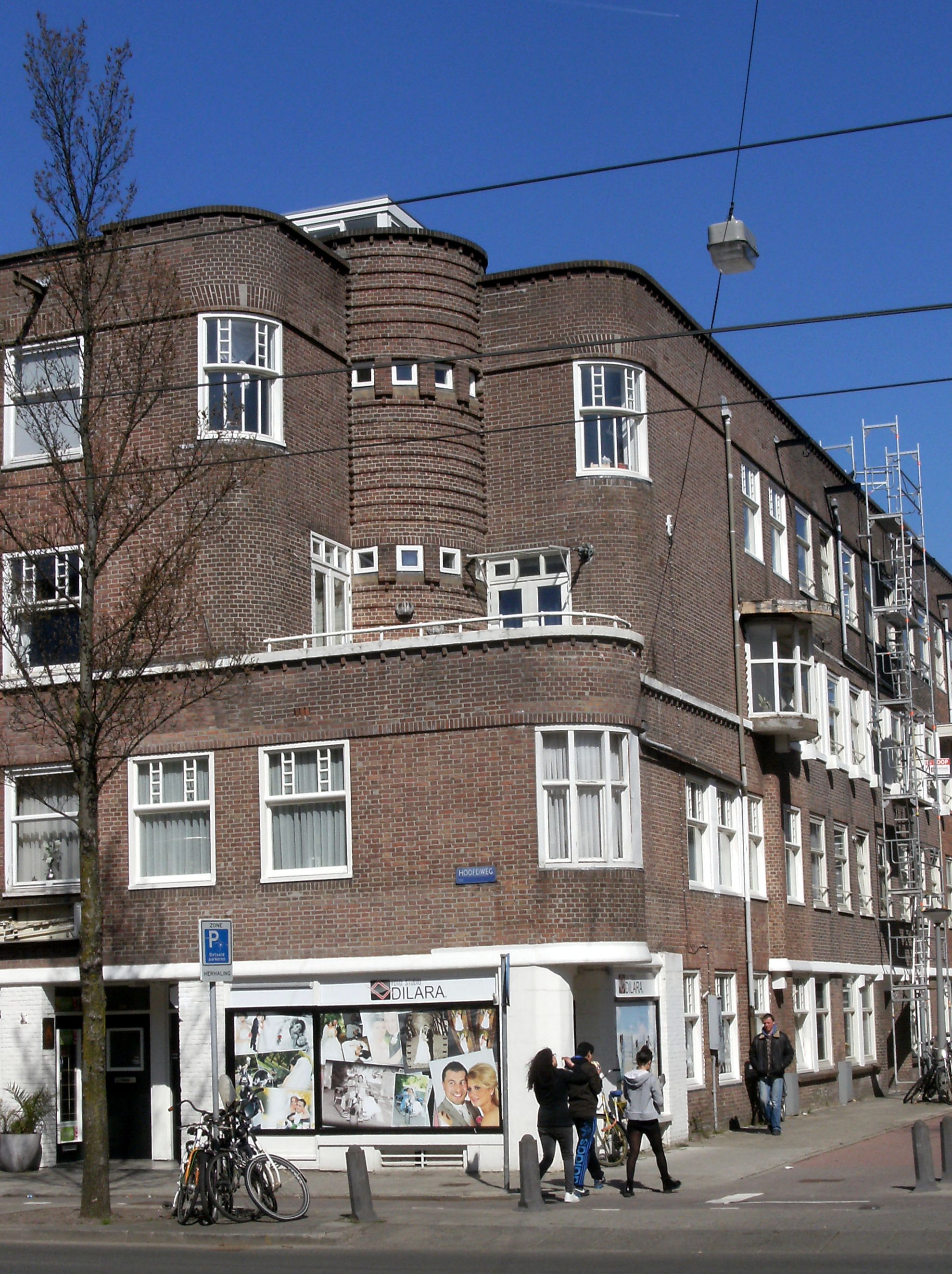 20130420 Amsterdam; Amsterdam school building in de Baarsjes.